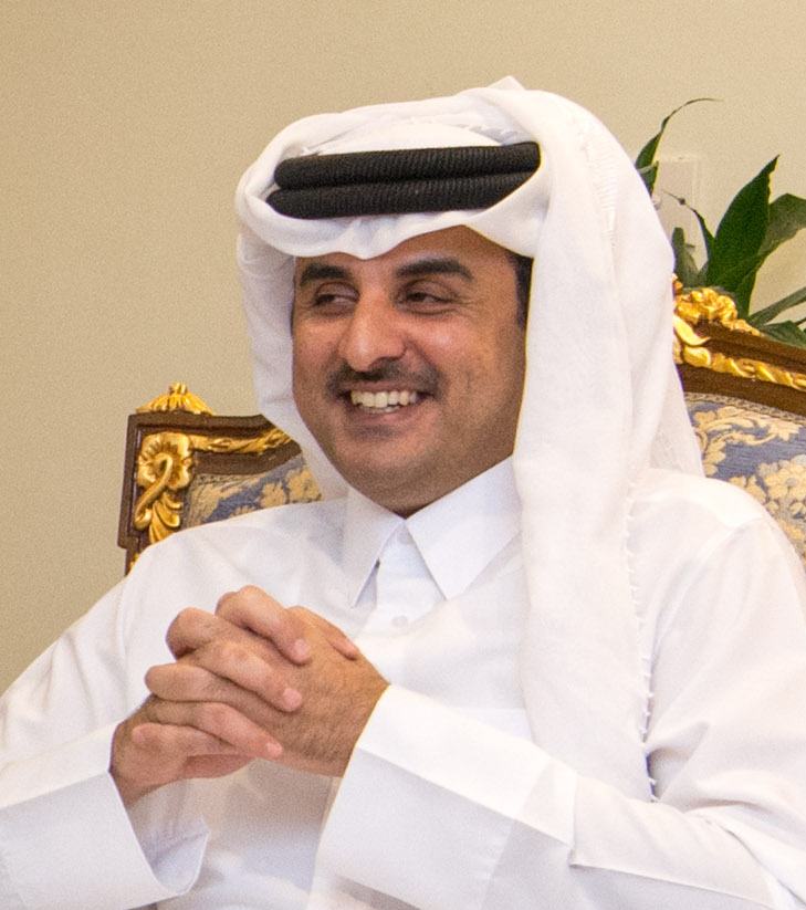 Secretary of Defense Jim Mattis meets with Qatar’s Emir Sheikh Tamim bin Hamad Al-Thani at Al Udeid Air Base in Qatar on Sept. 28, 2017. (DOD photo by U.S. Air Force Staff Sgt. Jette Carr)